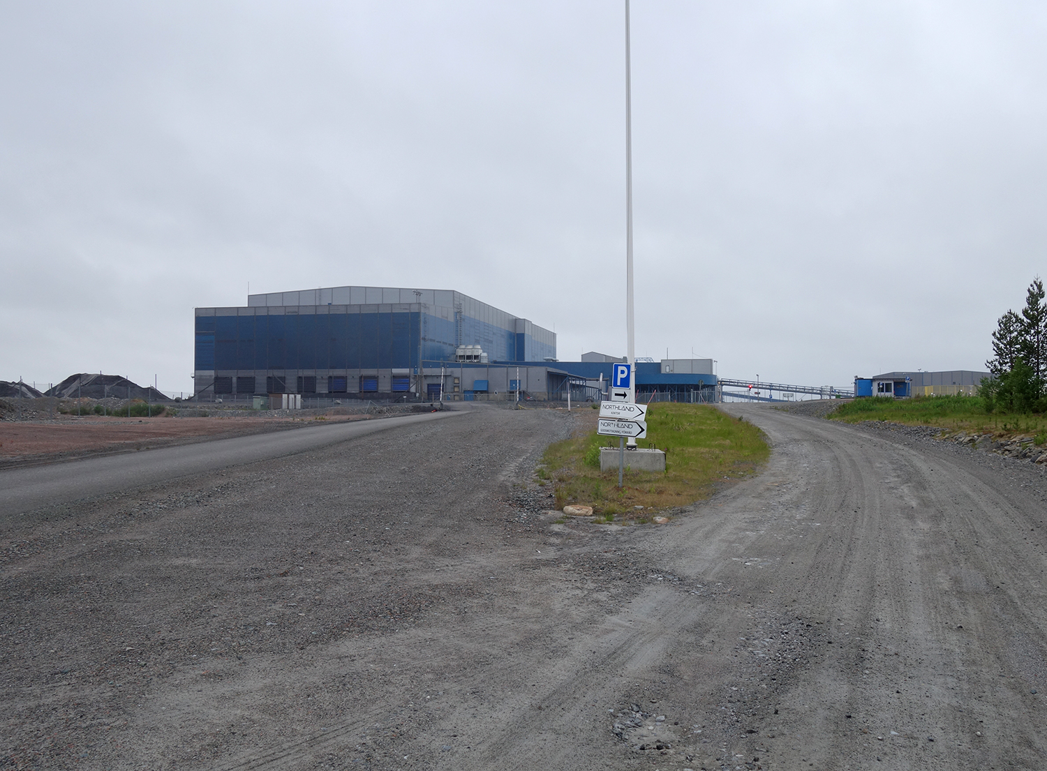 The abandoned Tapuli mine near Kaunisvaara in Pajala Municipality, northern Sweden. The mine was owned by Northland Resources, that decleared bankruptcy in 2014.